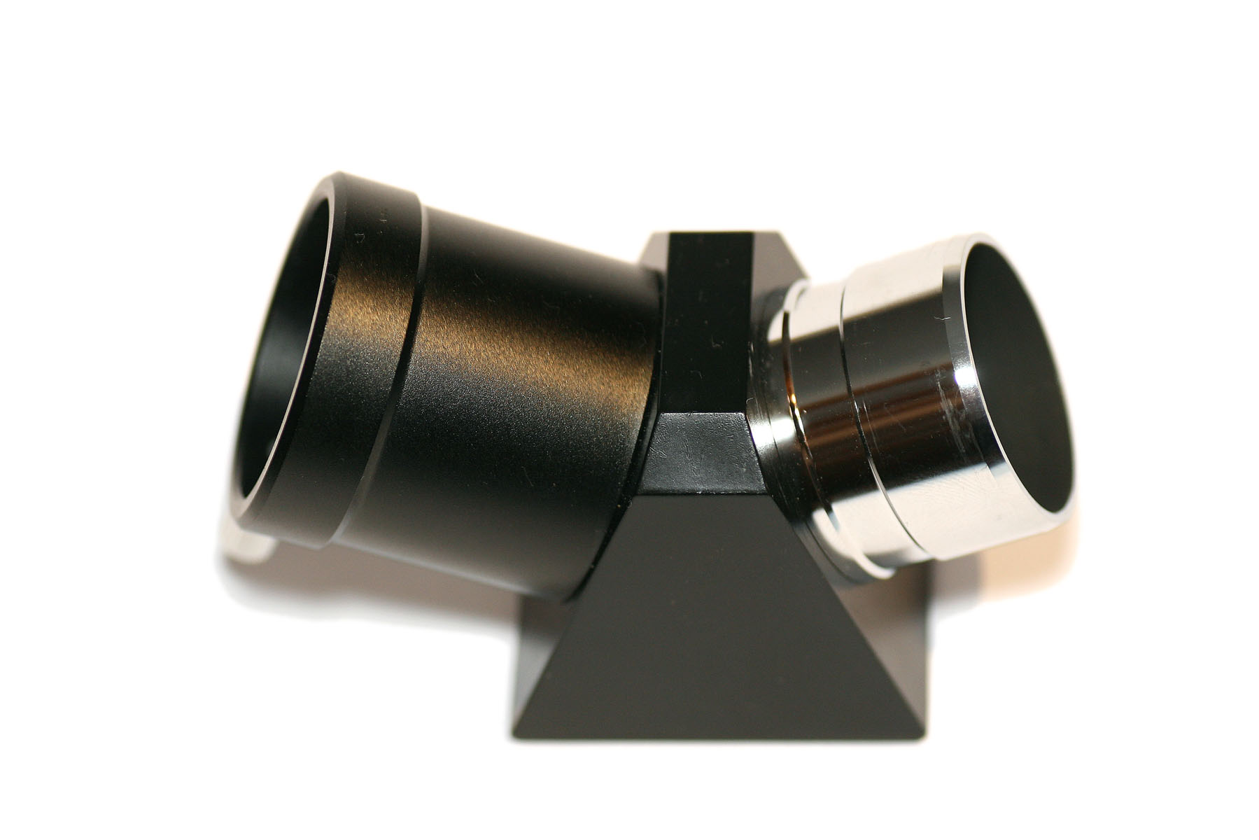 Amici prism for amateur astronomy